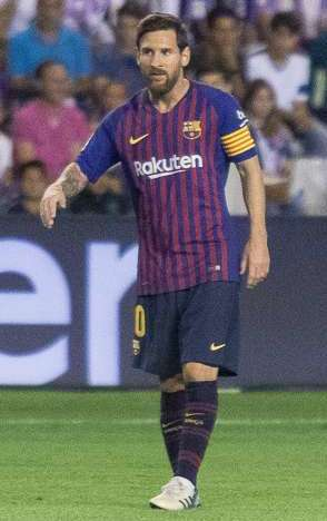 Real Valladolid - F. C. Barcelona, 2nd fixture of the 2018-19 La Liga, August 25, 2018.